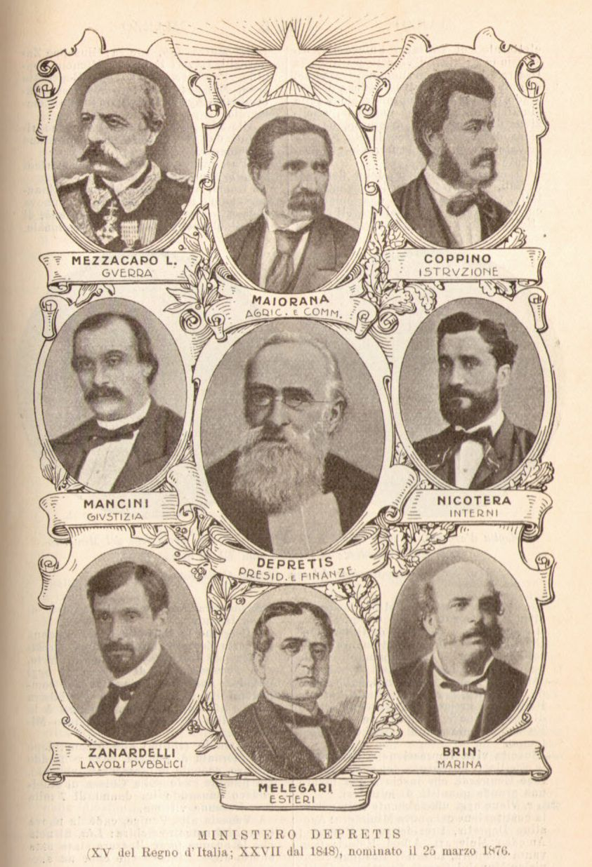 The Ministers of the first italian government Agostino Depretis (1813-1887)